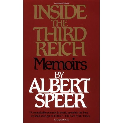 Inside The Third Reich - Memoirs by Albert Speer